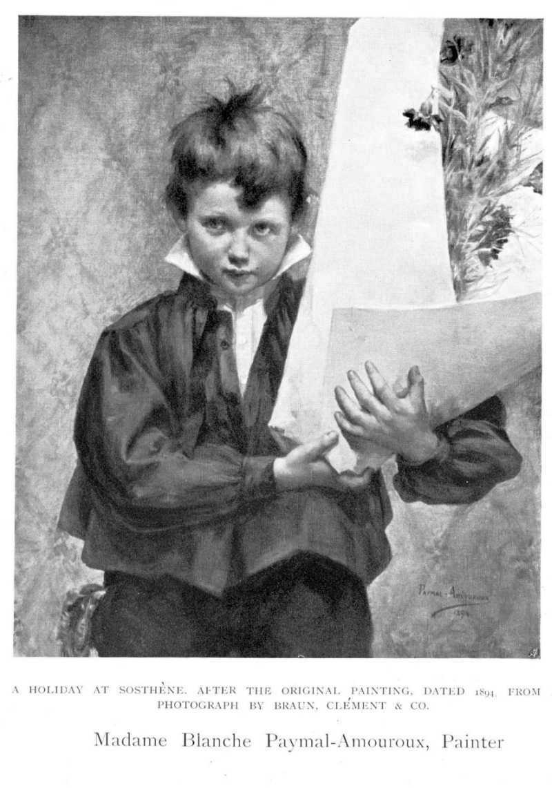 1905 print after page of Women painters of the world, from the time of Caterina Vigri, 1413-1463, to Rosa Bonheur and the present day, by Walter Shaw Sparrow, The Art and Life Library, Hodder & Stoughton, 27 Paternoster Row, London